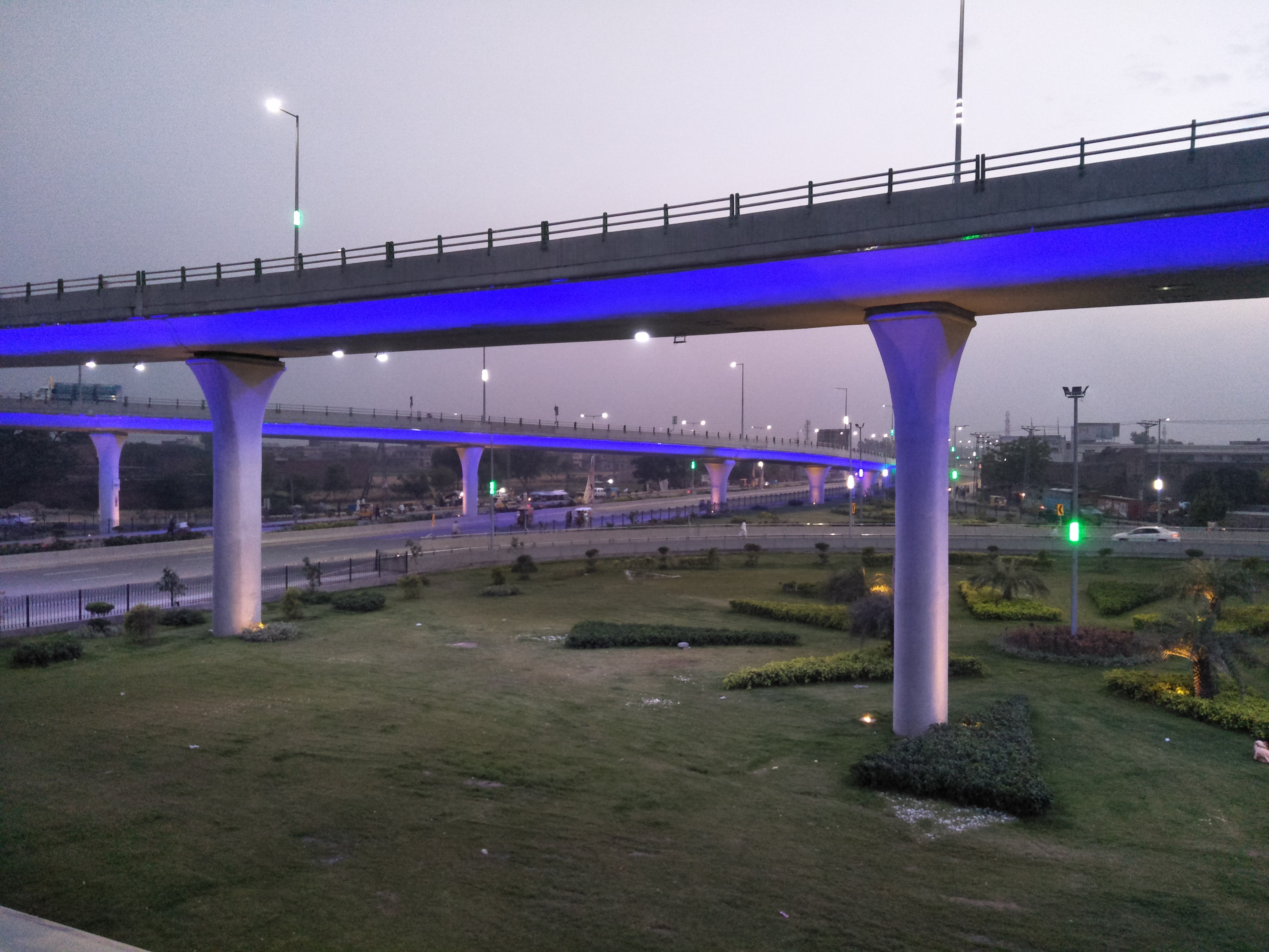 This is a picture of beautiful Jinnah Interchange in the evening when lights turned on